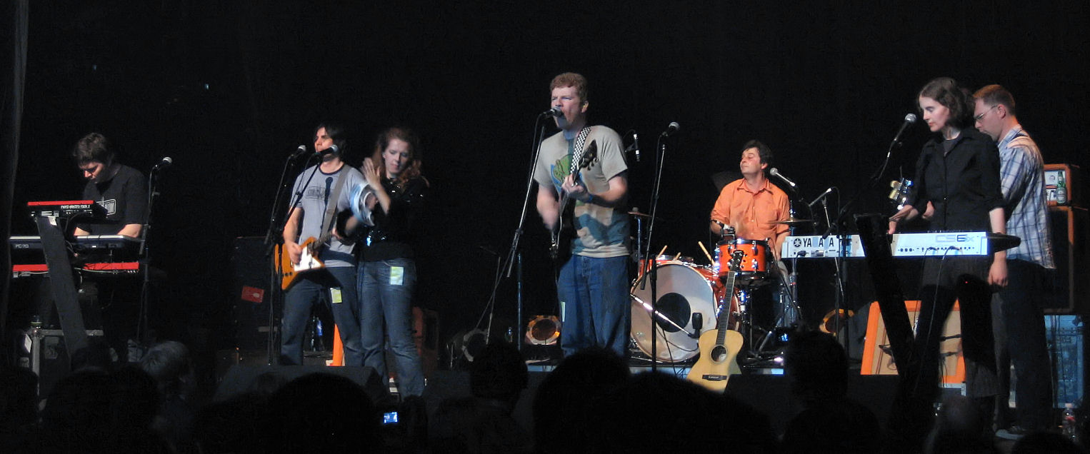 The New Pornographers, 2005